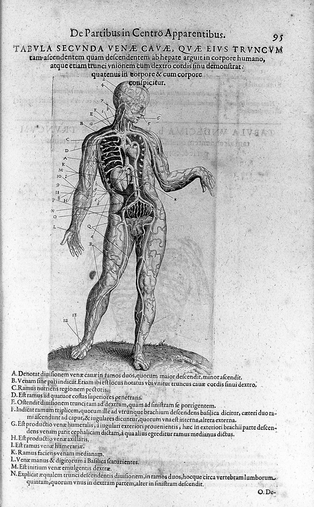 Venous system Rare Books Keywords: anatomy, 17th century; Fludd, Robert